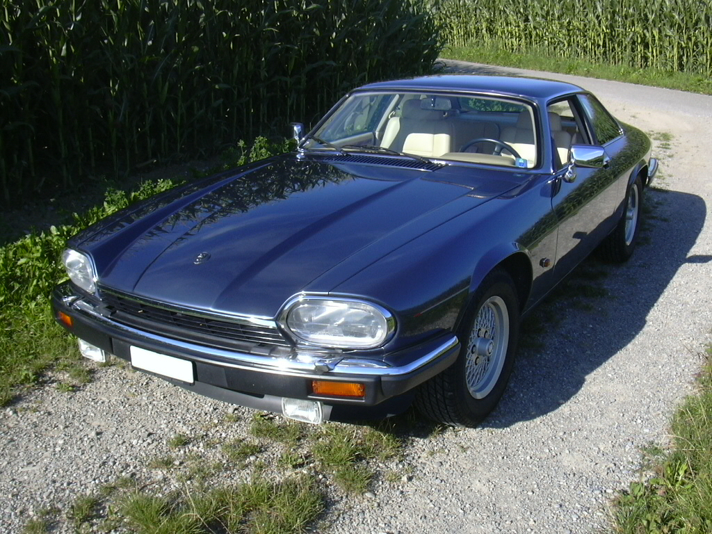 The picture shows a Jaguar XJS V12 (Facelift) coupé from 1992 (model year) and was taken in August 2007. This car has not been modified externally since it left the factory. The mileage is 54'000 Kilometers. Color: solent blue (metallic) Interior leather: magnolia